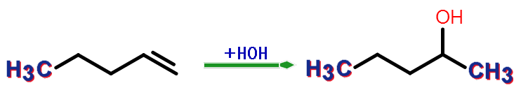 2-Pentanol synthesis from pentene